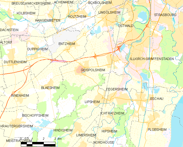 Map of French municipality